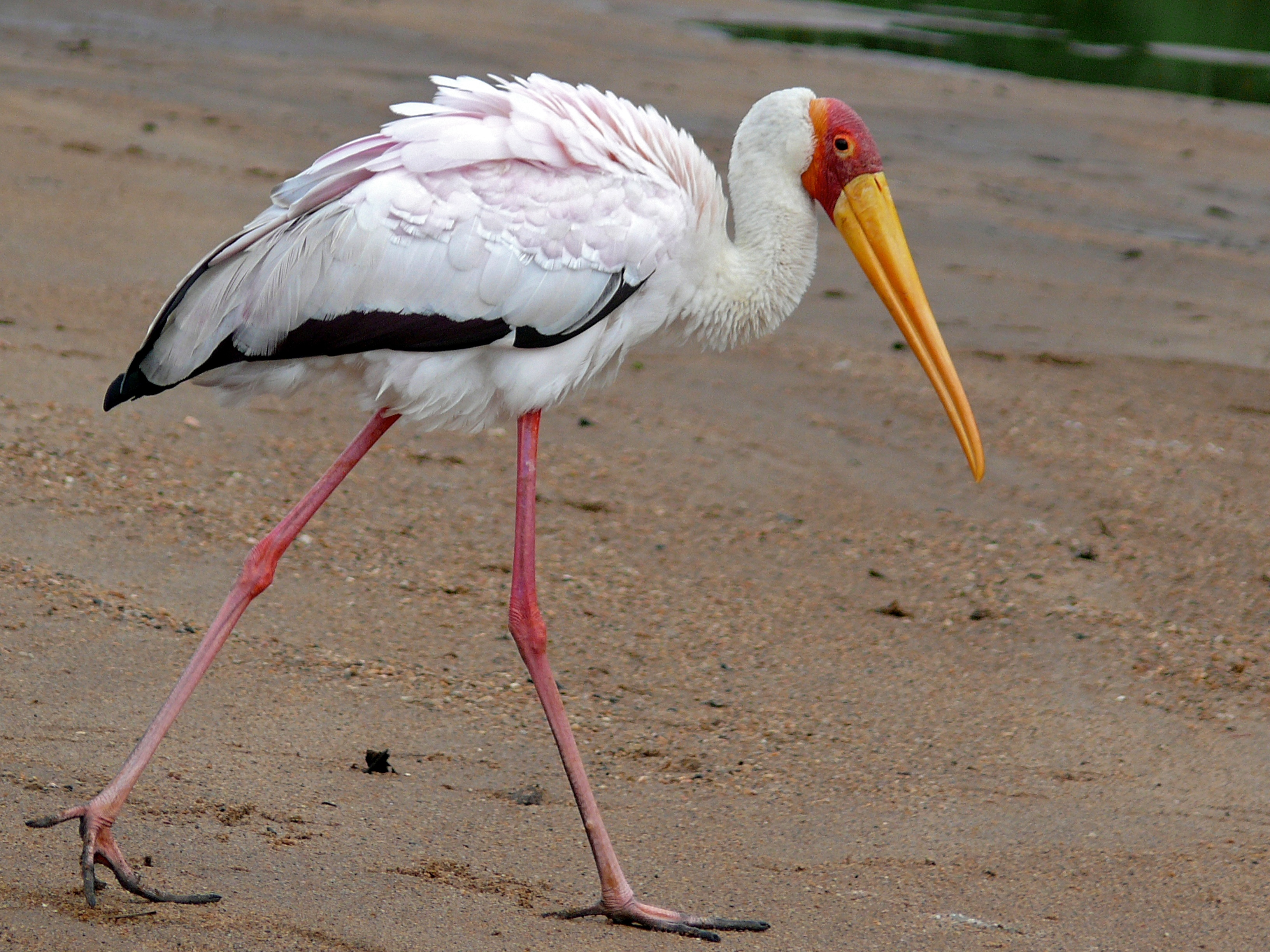 An adult yellow-billed stork in breeding plumage at the S134 Causeway behind Shingwedzi Camp, Kruger NP, SOUTH AFRICA.